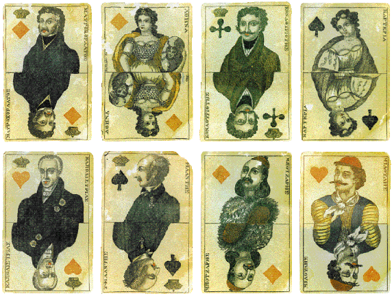 Lot of cards from a greek deck. From upper left: Mavrocordatos, Athena, Koundouriotis, Karteria (Perseverance), Kapodistrias, Ypsilantis, Botzaris, Miaoulis